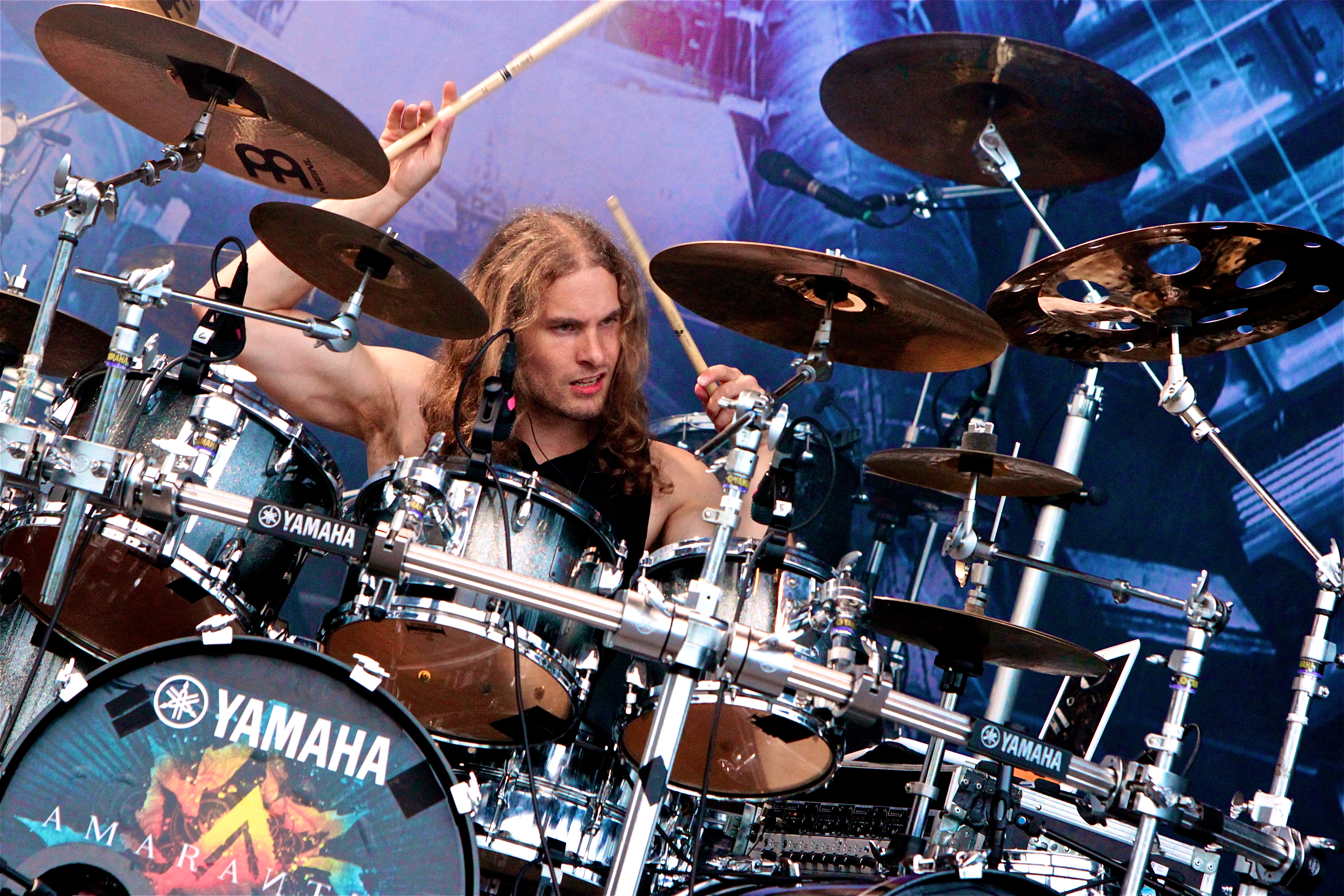 Morten Løwe Sørensen, Amaranthe